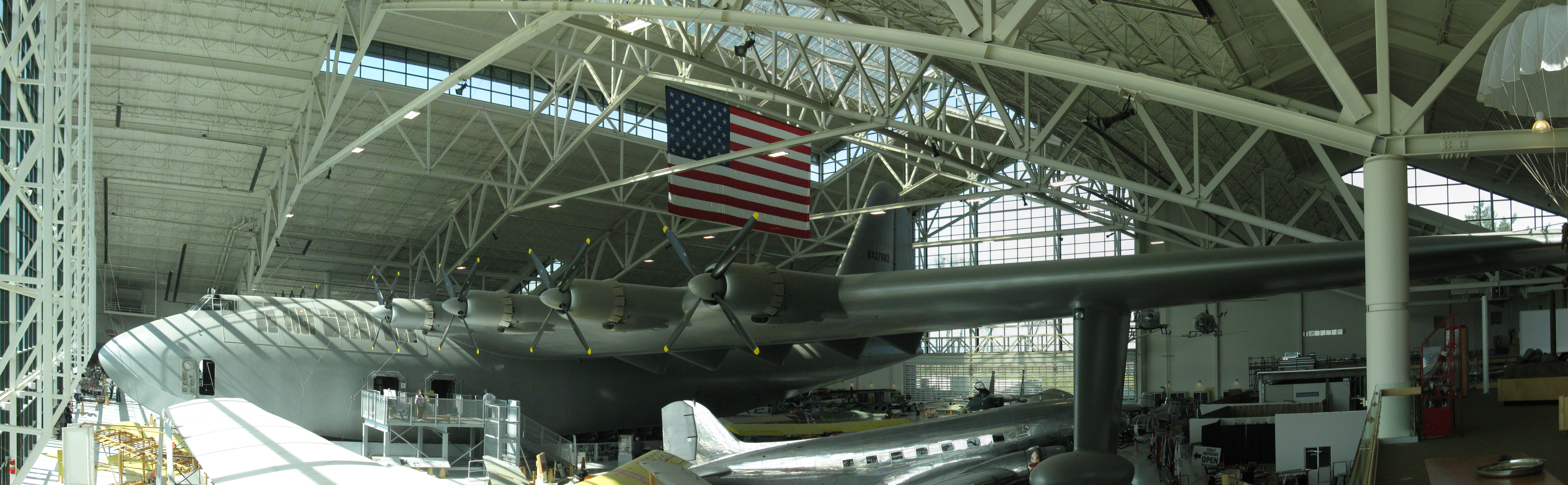 The Hughes H-4 Hercules (also known as the Spruce Goose) as seen inside its current resting place, the main building of the Evergreen Aviation & Space Museum near McMinneville, OR.